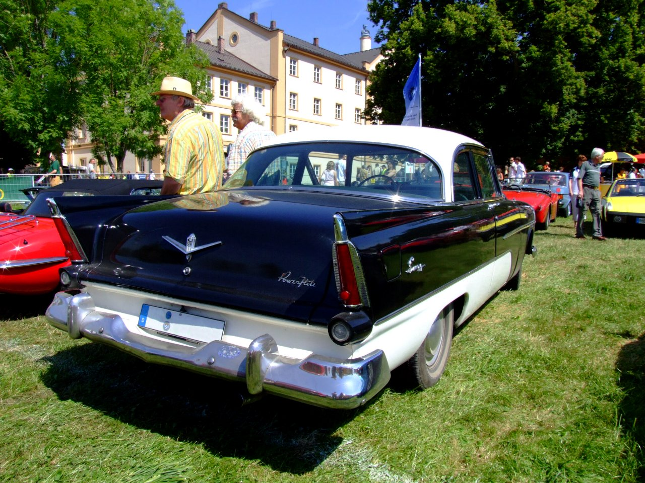 Summary Quelle: selbst fotografiert, 06/2006 Fotograf: Späth Chr. Licensing